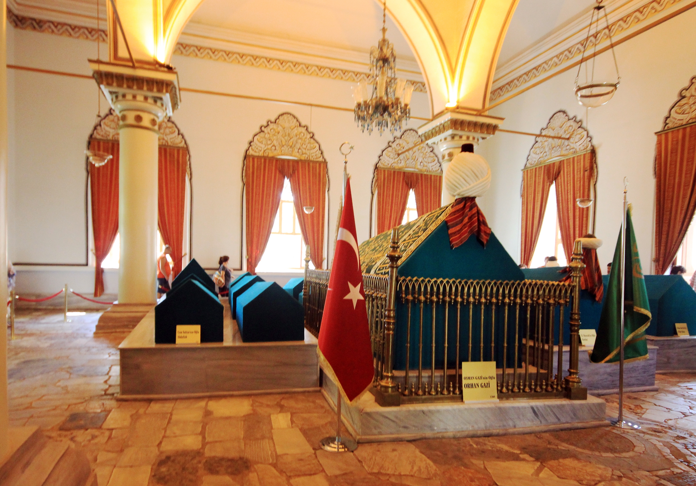 The tomb the second Osman sultan Orhan I. in Bursa city, Turkey